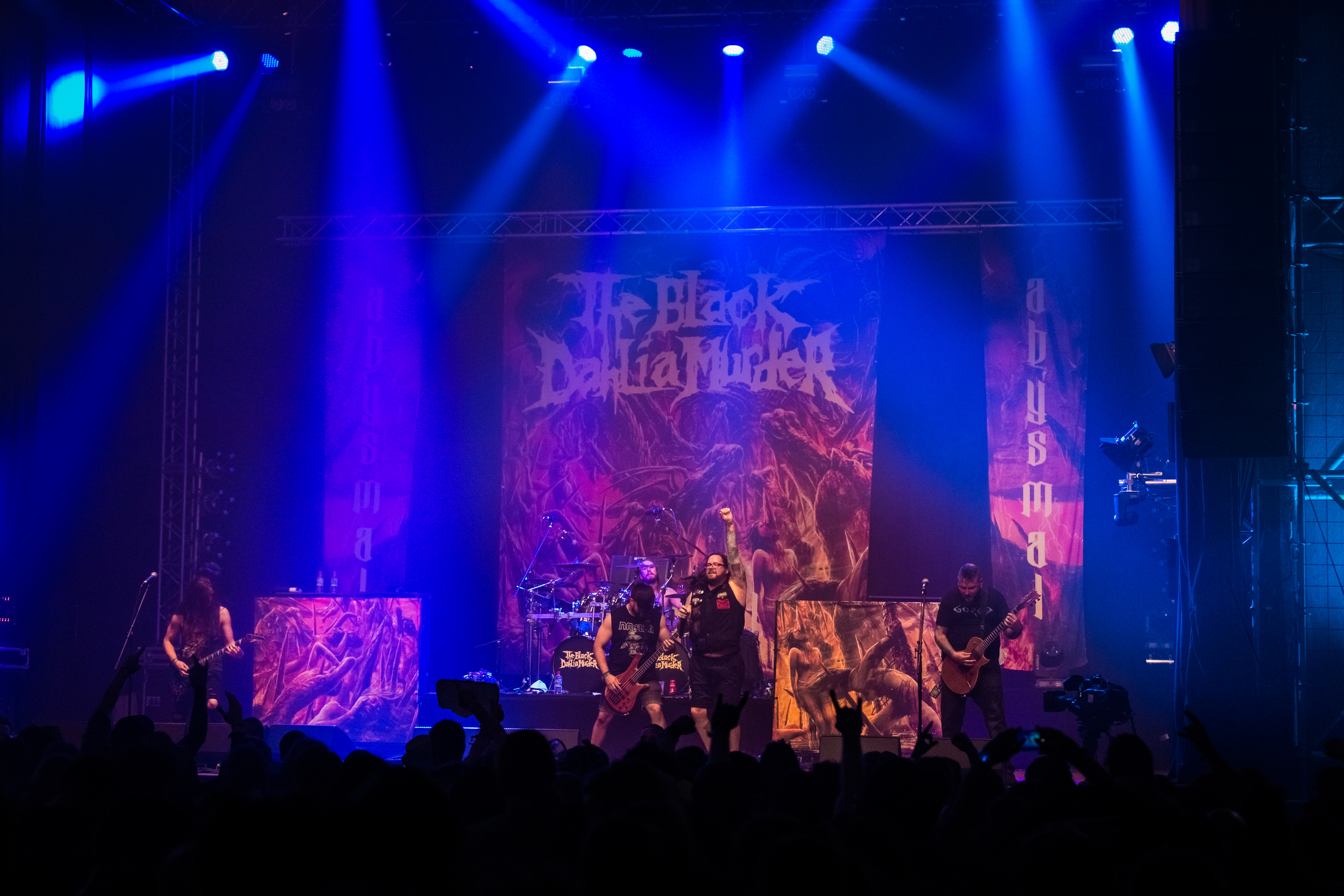 The Black Dahlia Murder - Wacken Open Aire 2016